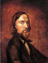 Self-portrait (alternate version)